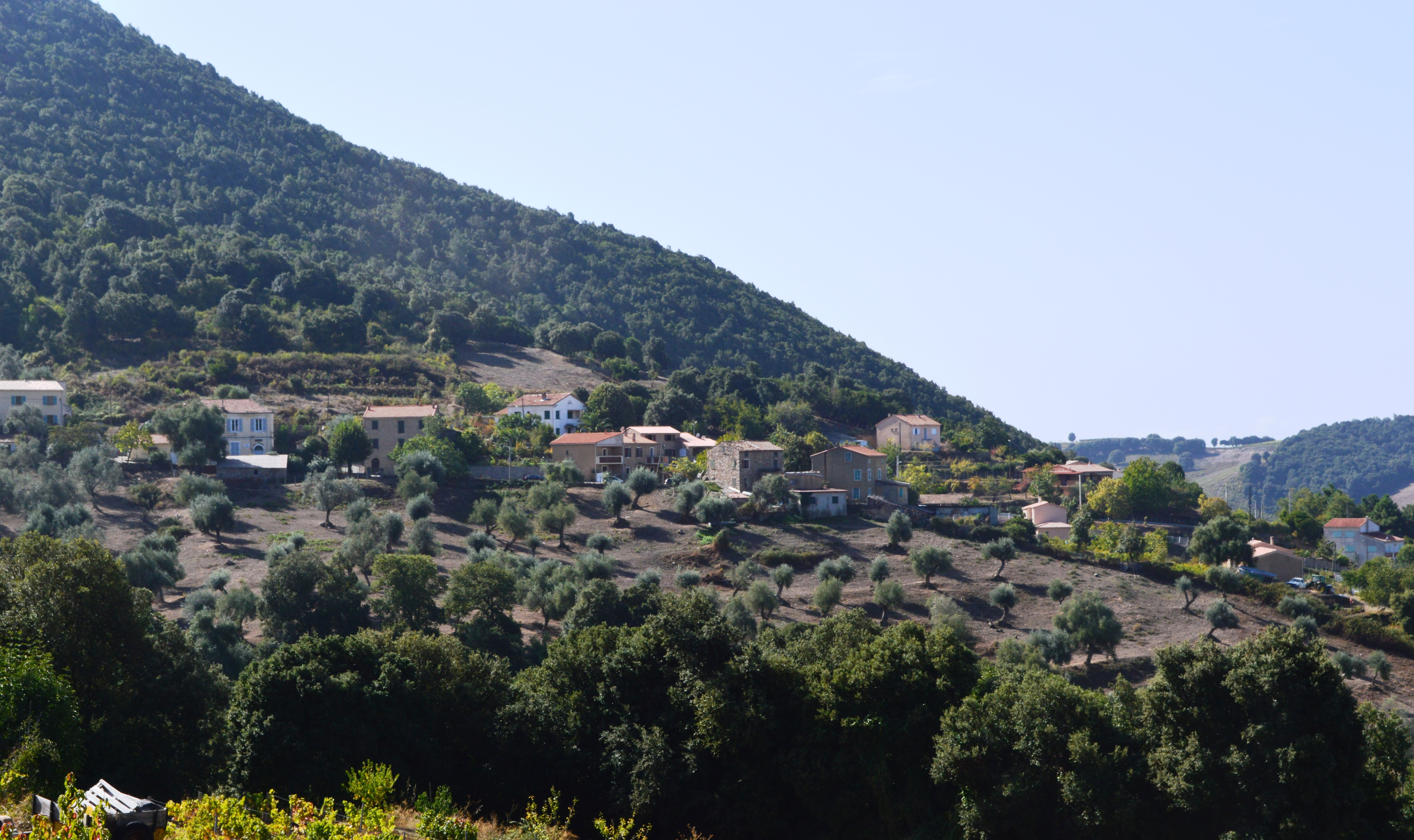 Arro Village